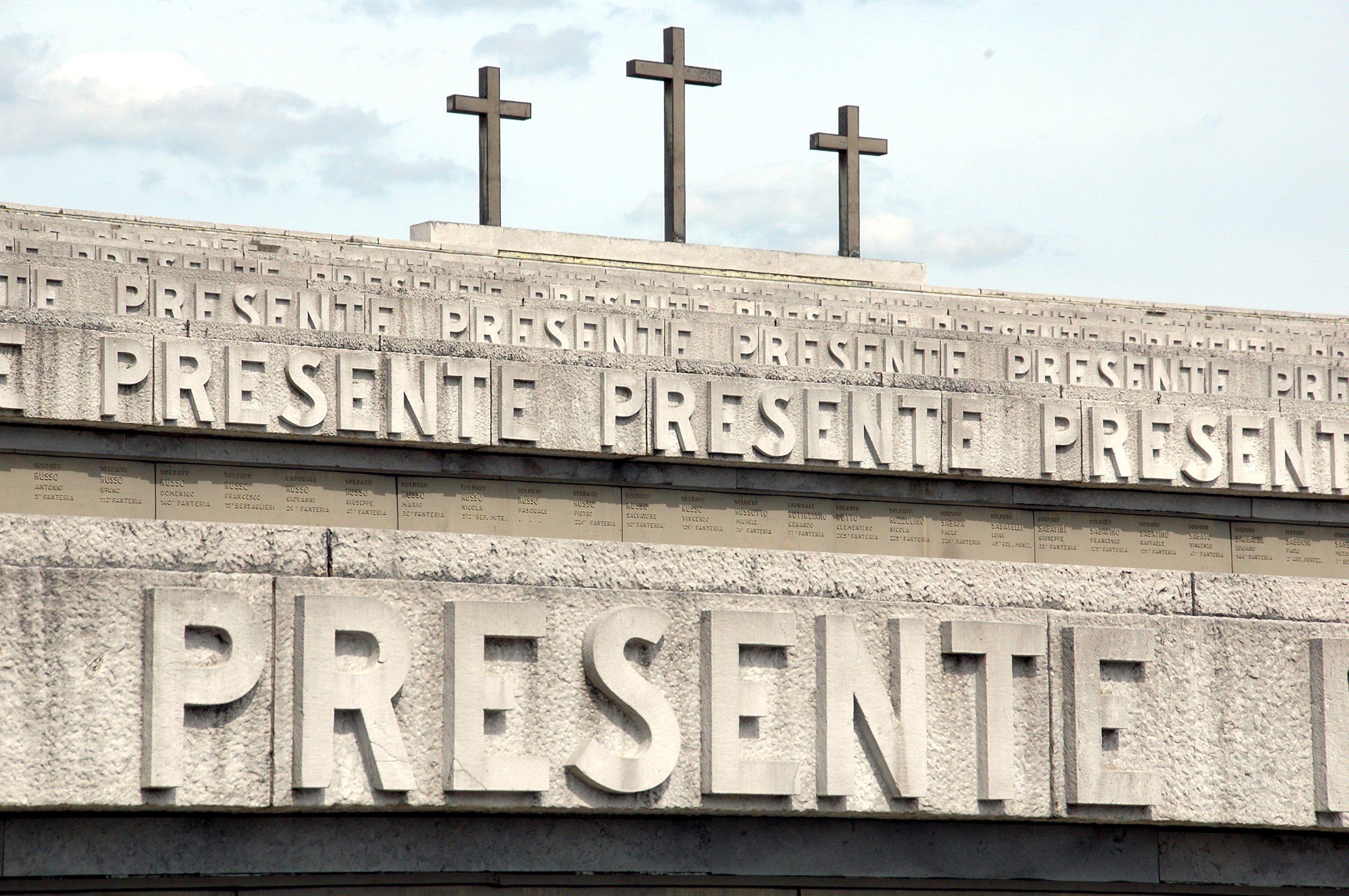 Monument (item) of Redipuglia, Fogliano-Redipuglia, Friuli, Italy